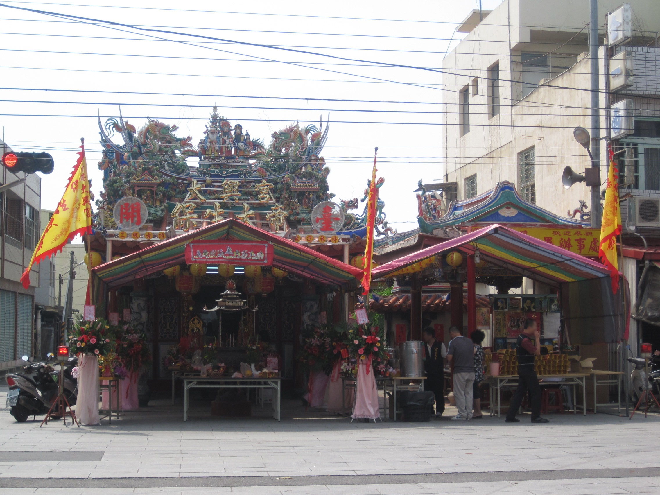 Dasing Temple